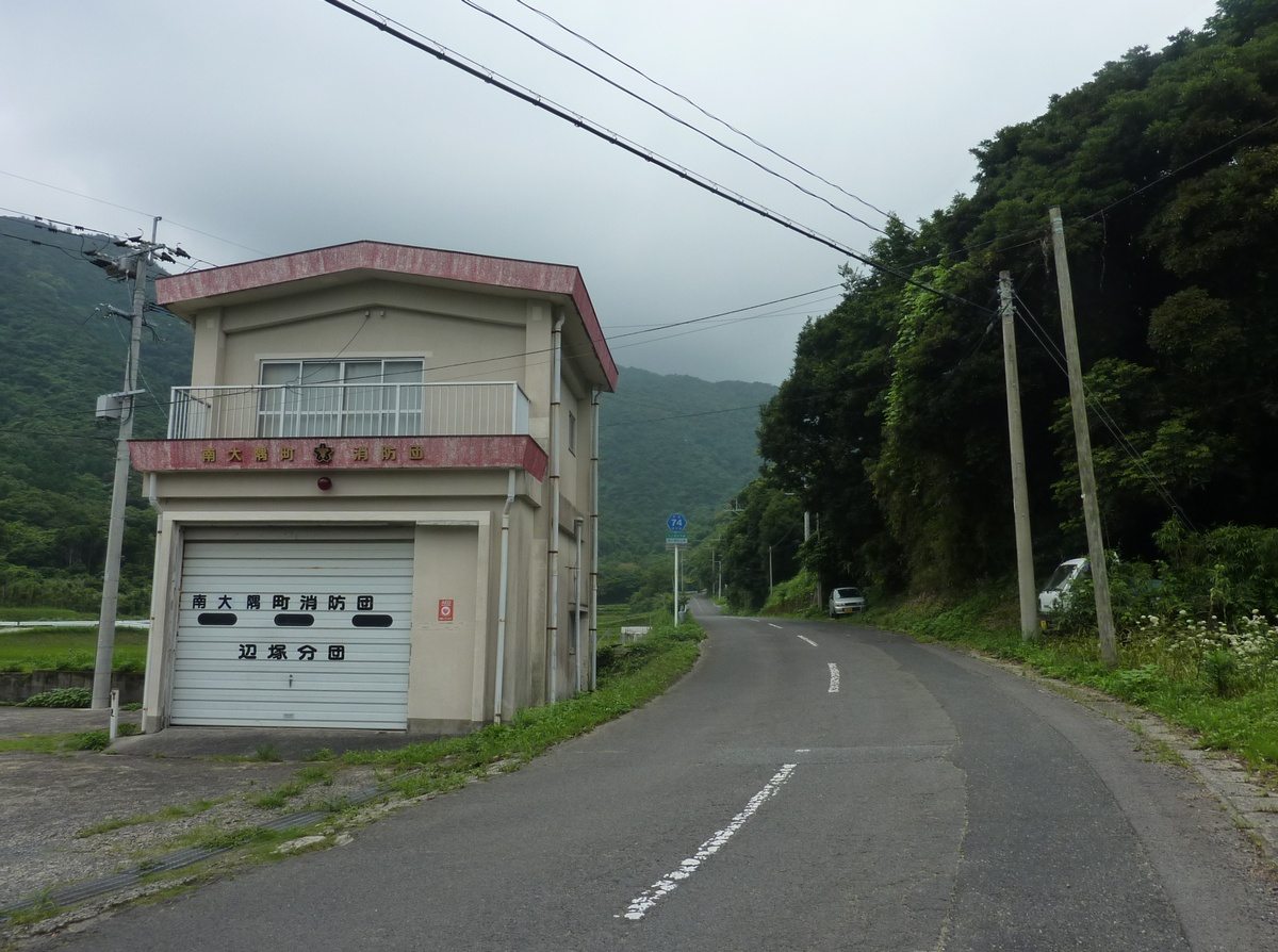 Kagoshima Prefectural Road No.74:Uchinoura-Sata Line (Sata-Hetsuka, Minamiosumi Town, Kagoshima, Japan)